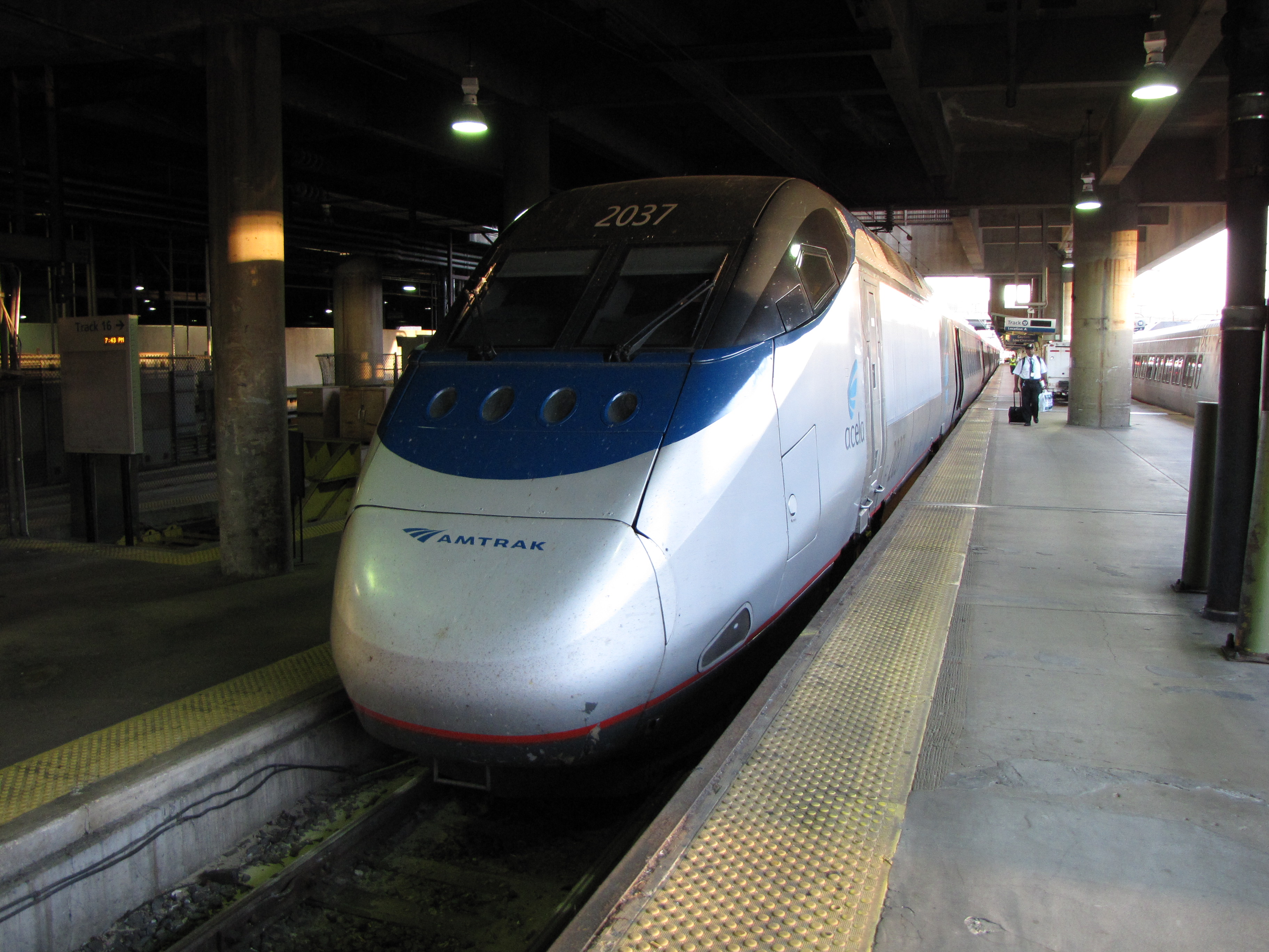 Power car 2037 for Amtrak's Acela Express at Washington Union Station.